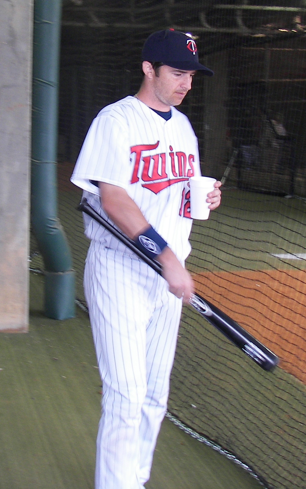 Minnesota Twins outfielder Jason Tyner before a spring training game at the Twins' spring training home, Hammond Stadium, in South Fort Myers, Florida.